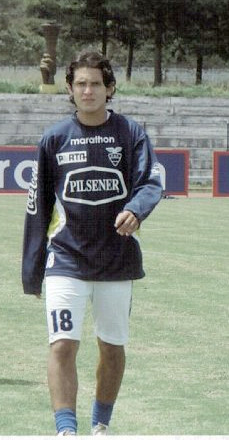 Photo of Miguel bravo while he was playing for the Ecuadorian soccer team